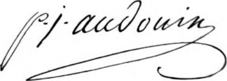 Signature of Pierre-Jean Audouin (1764-1808), French Journalist.